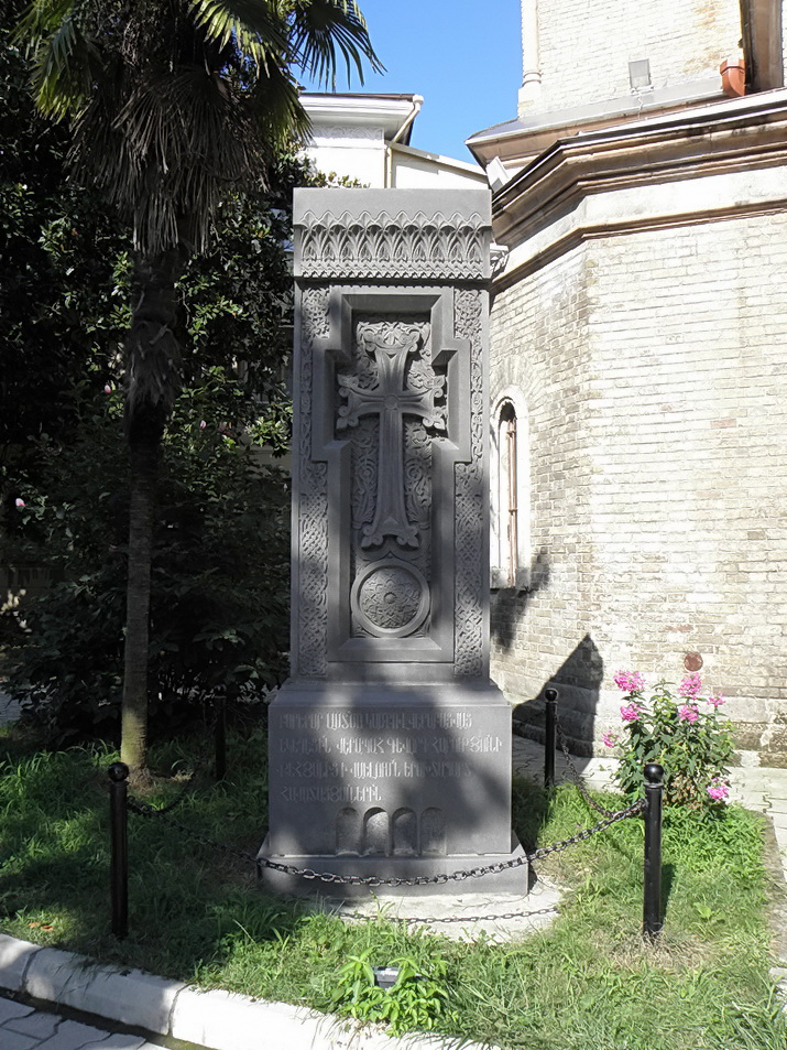 Khachkar at Armenian church in Batumi, Georgia.